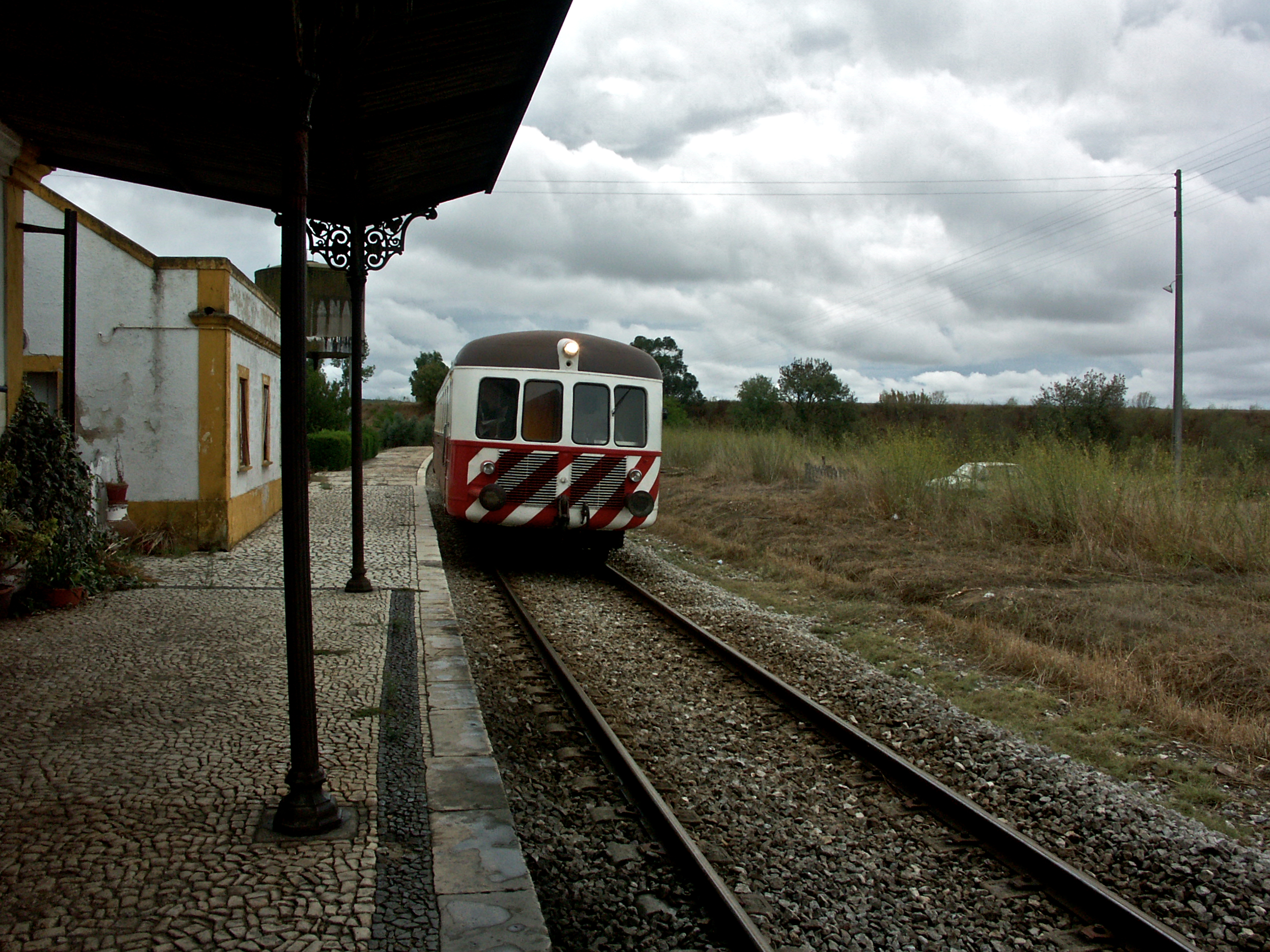 Railway Station of Viana do Alentejo